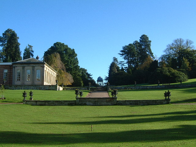 Hawkstone Hall Gardens. Looking out to the east, towards the gardens.